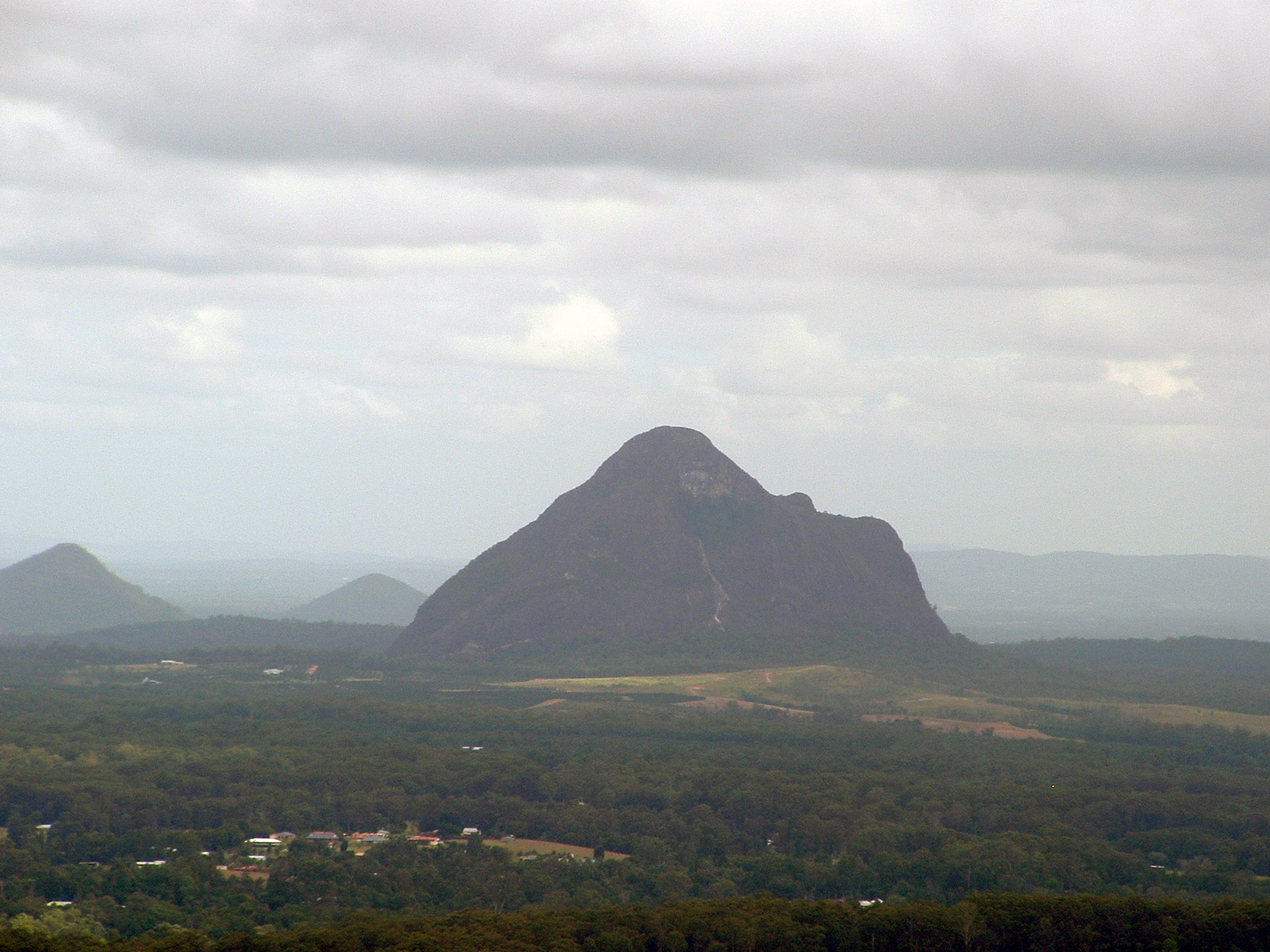 Mount Beerwah which forms part of the Glass House Mountains on the Sunshine Coast, Queensland.